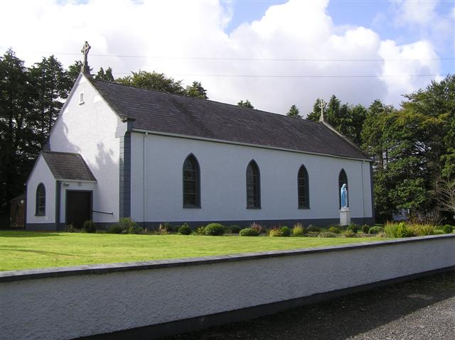 St Brigids RC Church, Ballintrillick Looking south-west